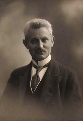 Egmont Harald Petersen (1860-1914), Danish publisher